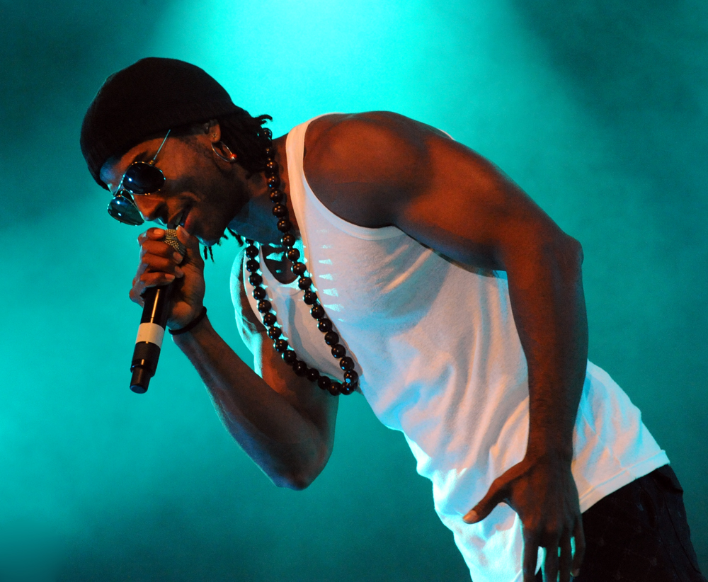 Yotuel Romero of Cuban hip-hop group Orishas performing in Warszawa, Poland during the 5th Cross Culture Festival